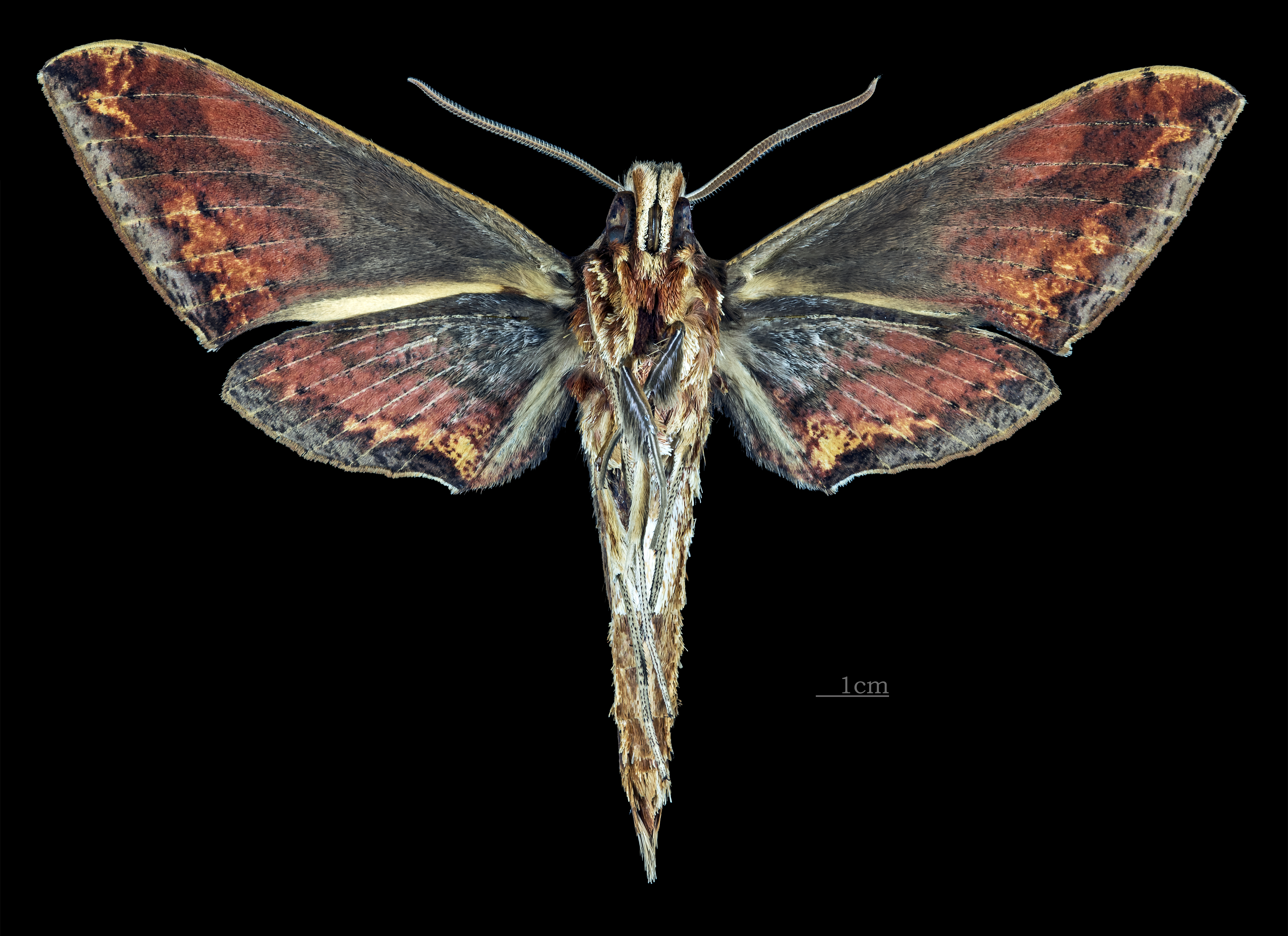 Xylophanes rhodina - △ Ventral side Collection of the Mathematician Laurent Schwartz